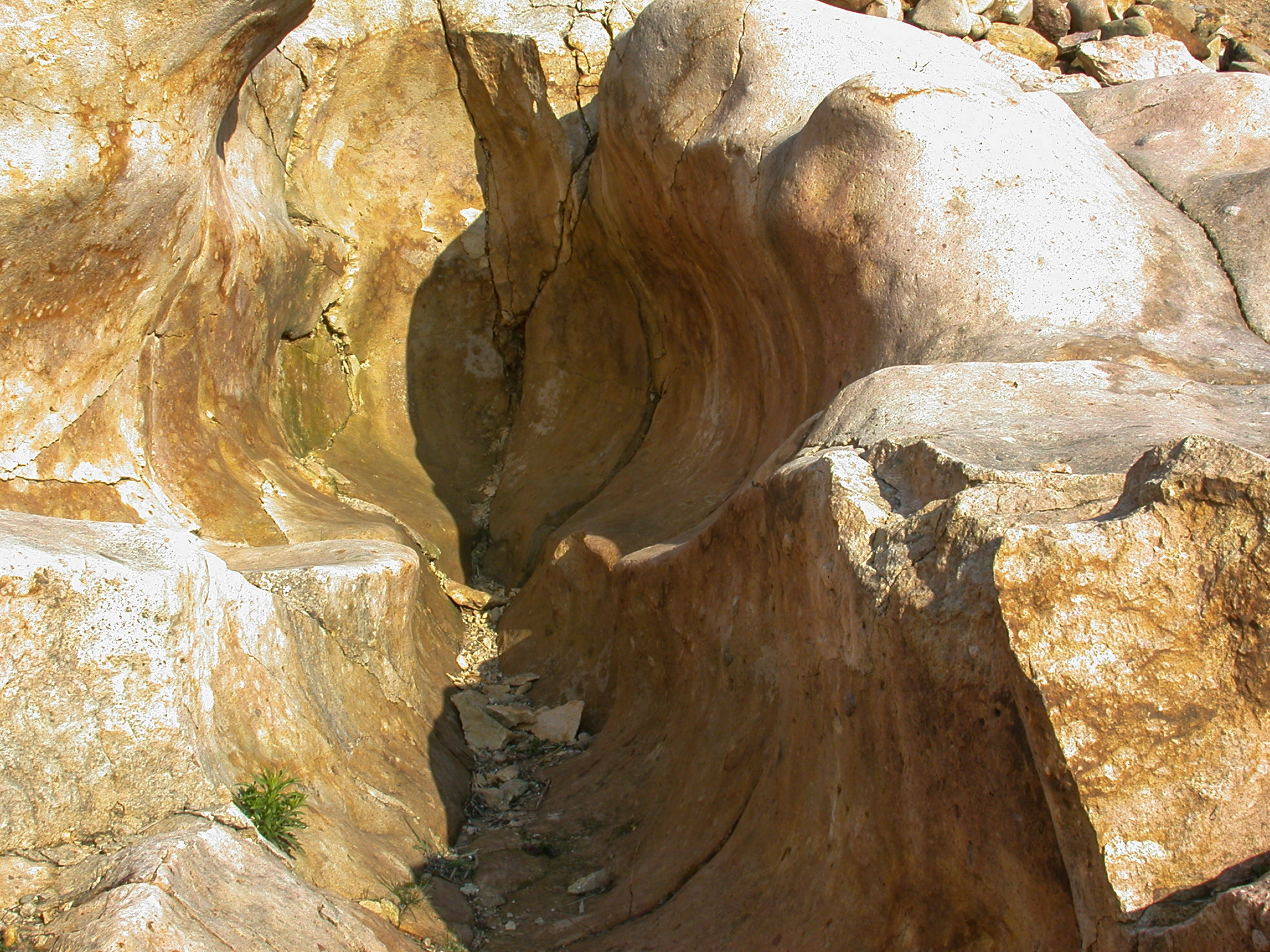 Part of fossil sea cliff at Steigerberg hill: Permian volcanic rocks (Kreuznach Rhyolite) with Oligocene (30 mya) coastal erosion features (small cave in foot of sea cliff). Mainz Basin, Rhineland-Palatinate, Germany[1]